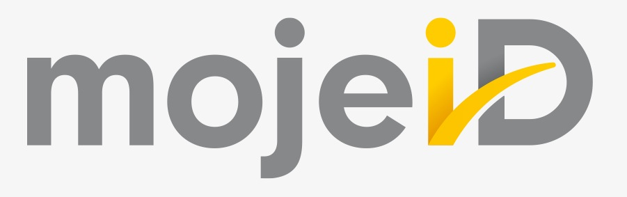 CZ.NIC, z.s.p.o. logo